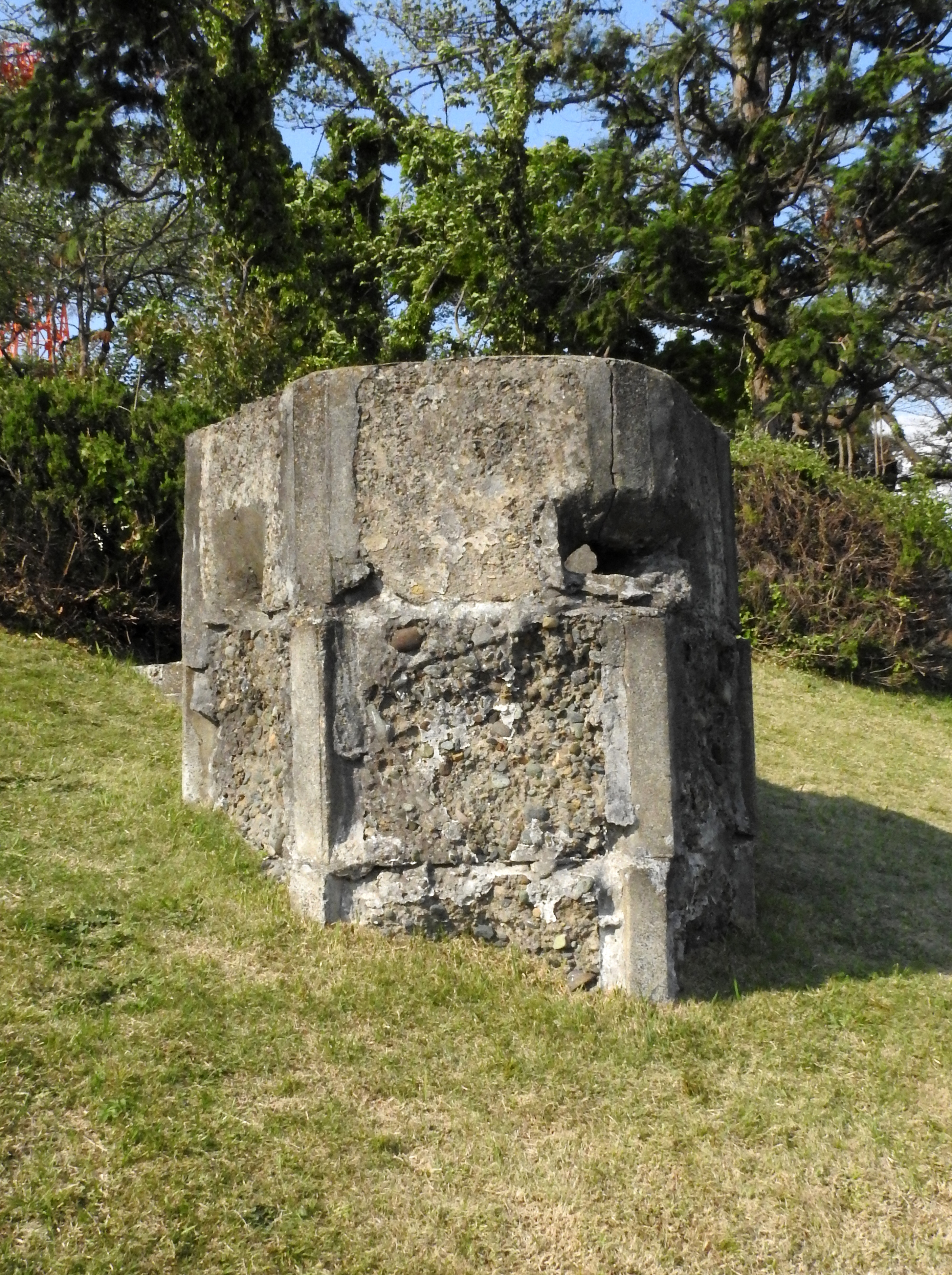 The remains of an old guard post at Naval Air Facility Atsugi in Kanagawa prefecture, Japan.